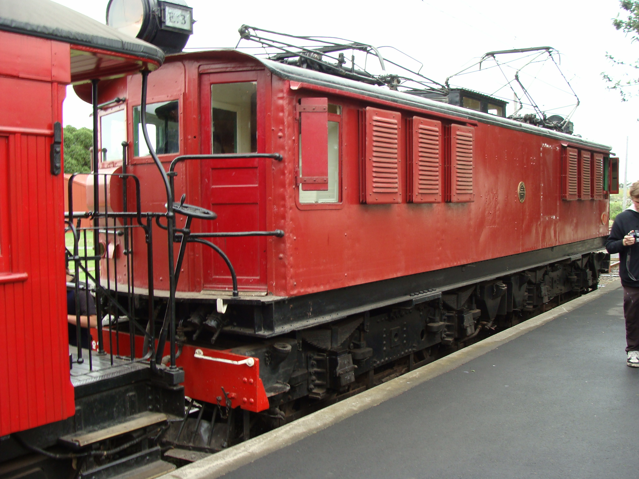 NZR EO class No. 3 ready to depart Moorhouse Station at the Ferrymead Railway Easter 2008 railfan event.